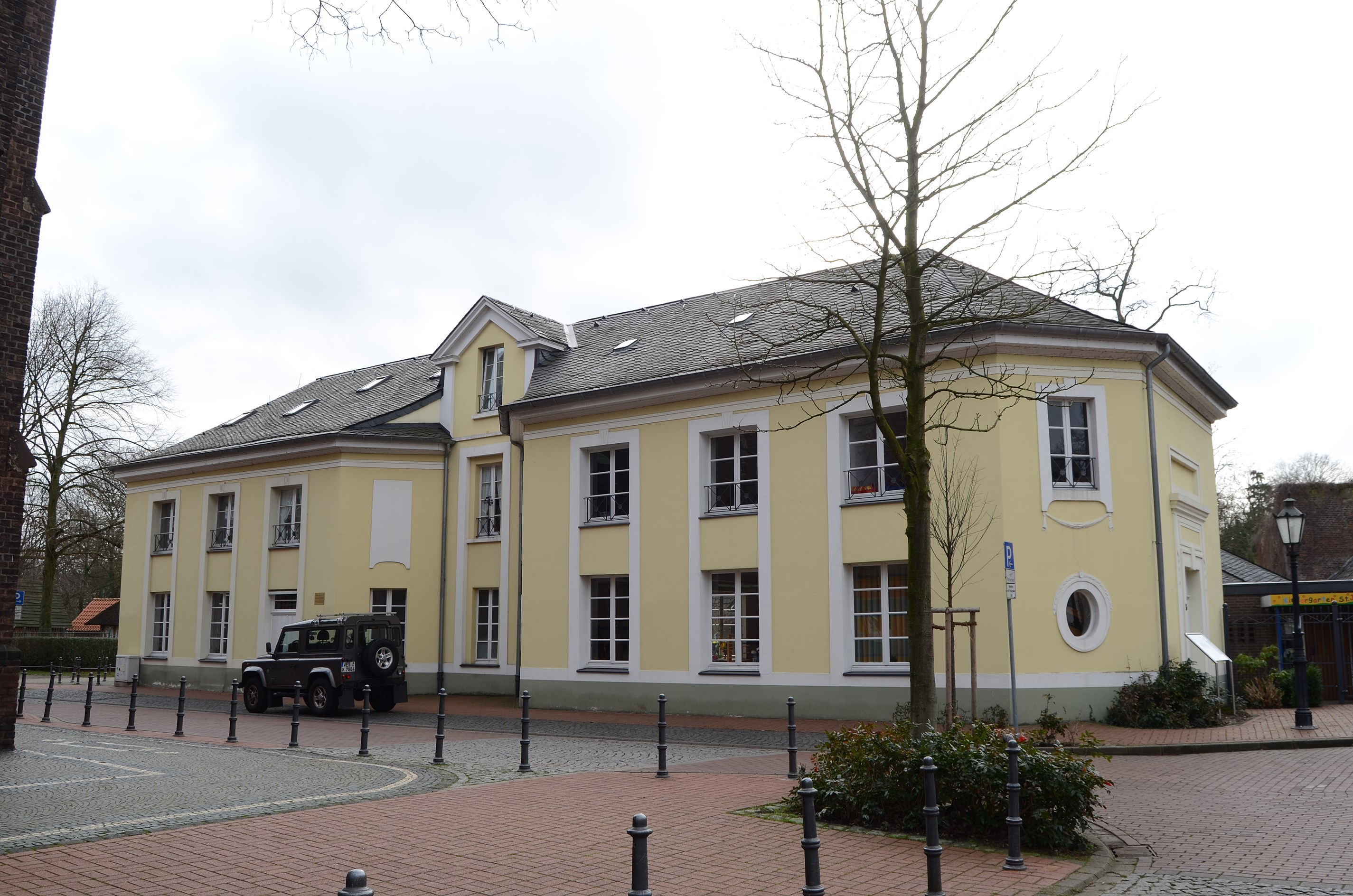 Moers (North Rhine-Westphalia, Germany) – Catholic kindergarten This image shows a heritage building in Germany, located in the North Rhine-Westphalian city Moers (no. 50). This photograph was taken with a Nikon D7000.